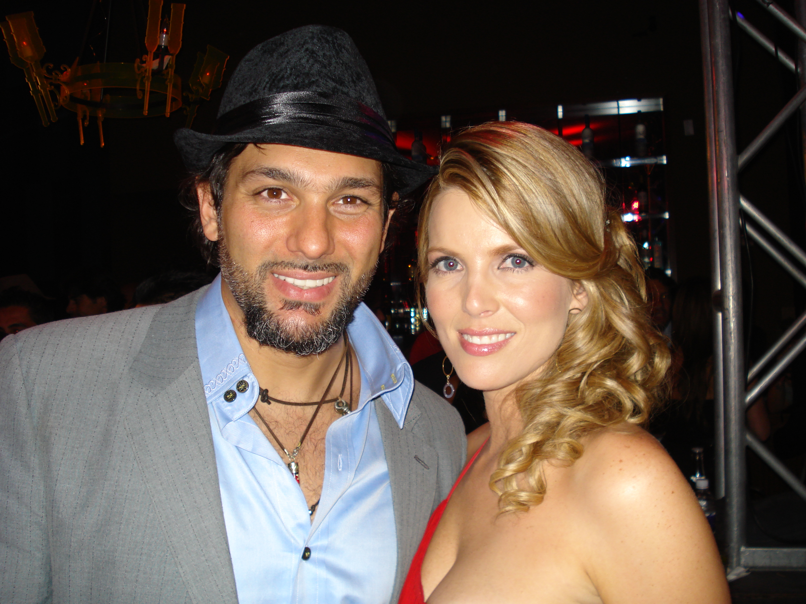 Maritza Rodríguez, Colombian telenovela actress and model, and Celebrity Hair stylist Leonardo Rocco in Miami, Florida, United States of America.